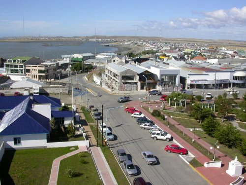 A view of Río Grande, Tierra del Fuego province, Argentina.